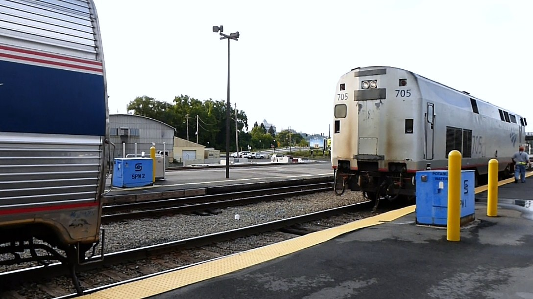 P32AC-DM locomotive is separated from Amtrak Lake Shore Limited train #49 at Albany–Rensselaer station to prepare to be coupled with train #449 from Boston before heading to Chicago.